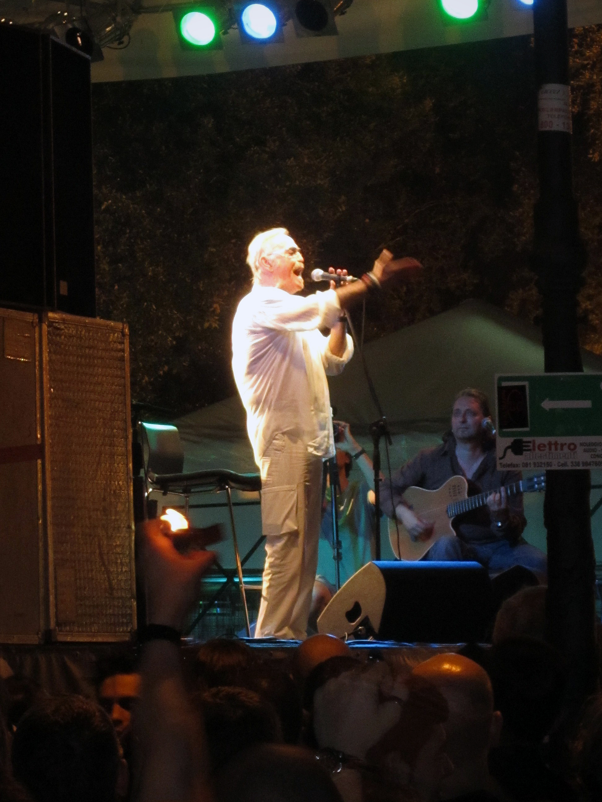 Franco Califano in concerto a Roma.